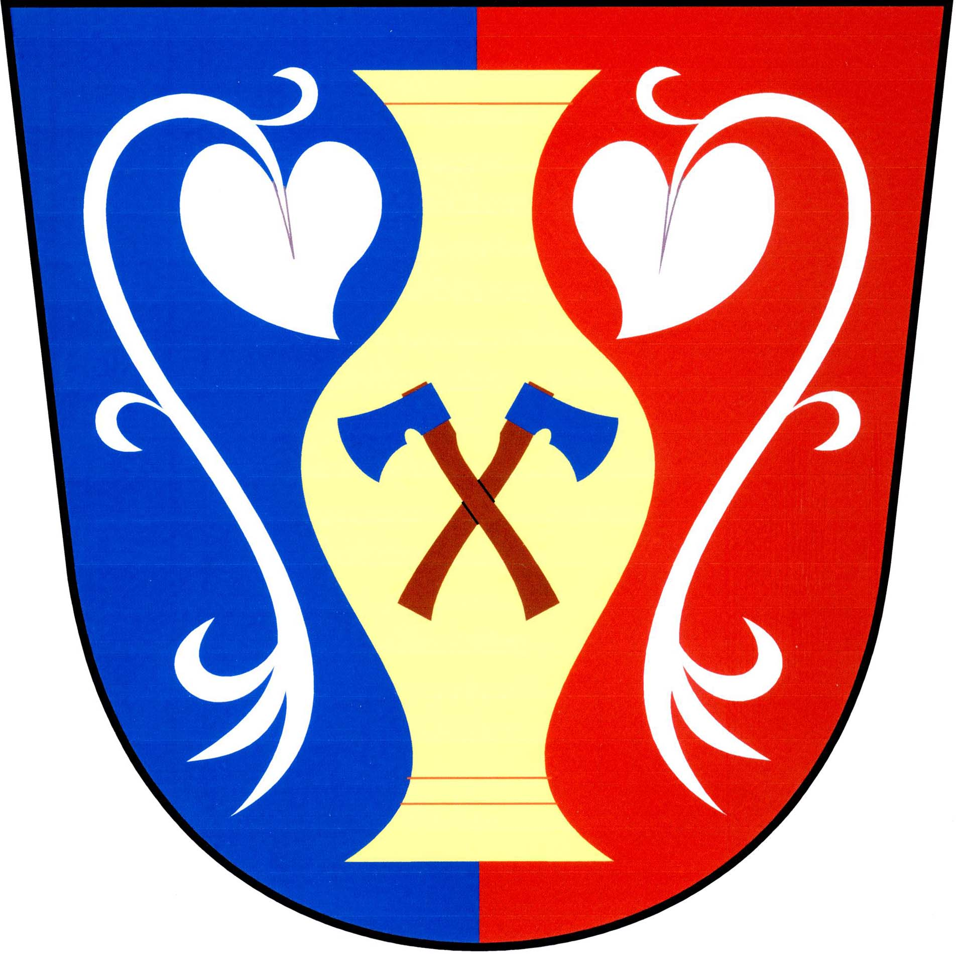 Municipal coat of arms of Mouřínov village, Vyškov District, Czech Republic.